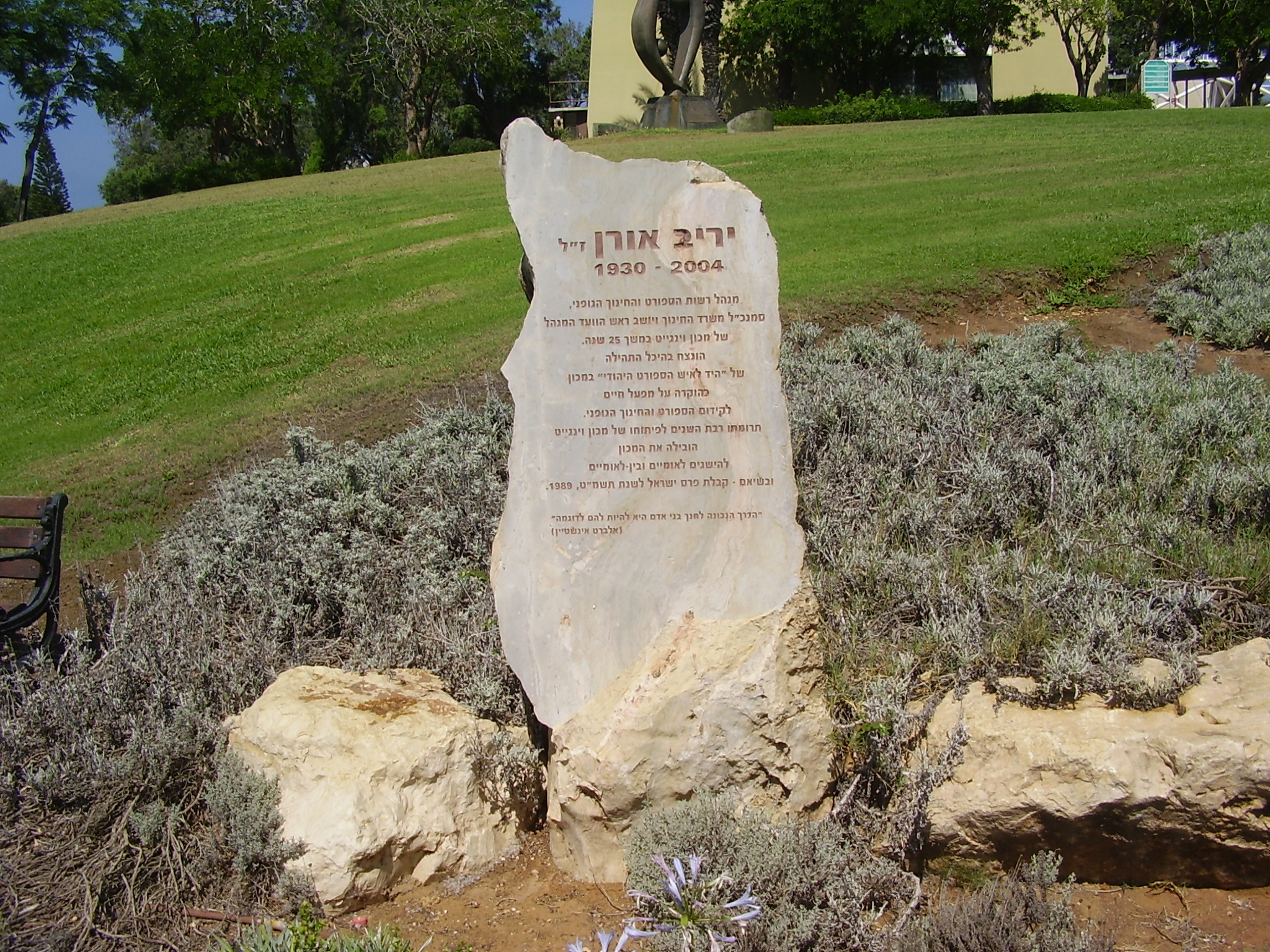 Yariv Oren memorial in Wingate Institue